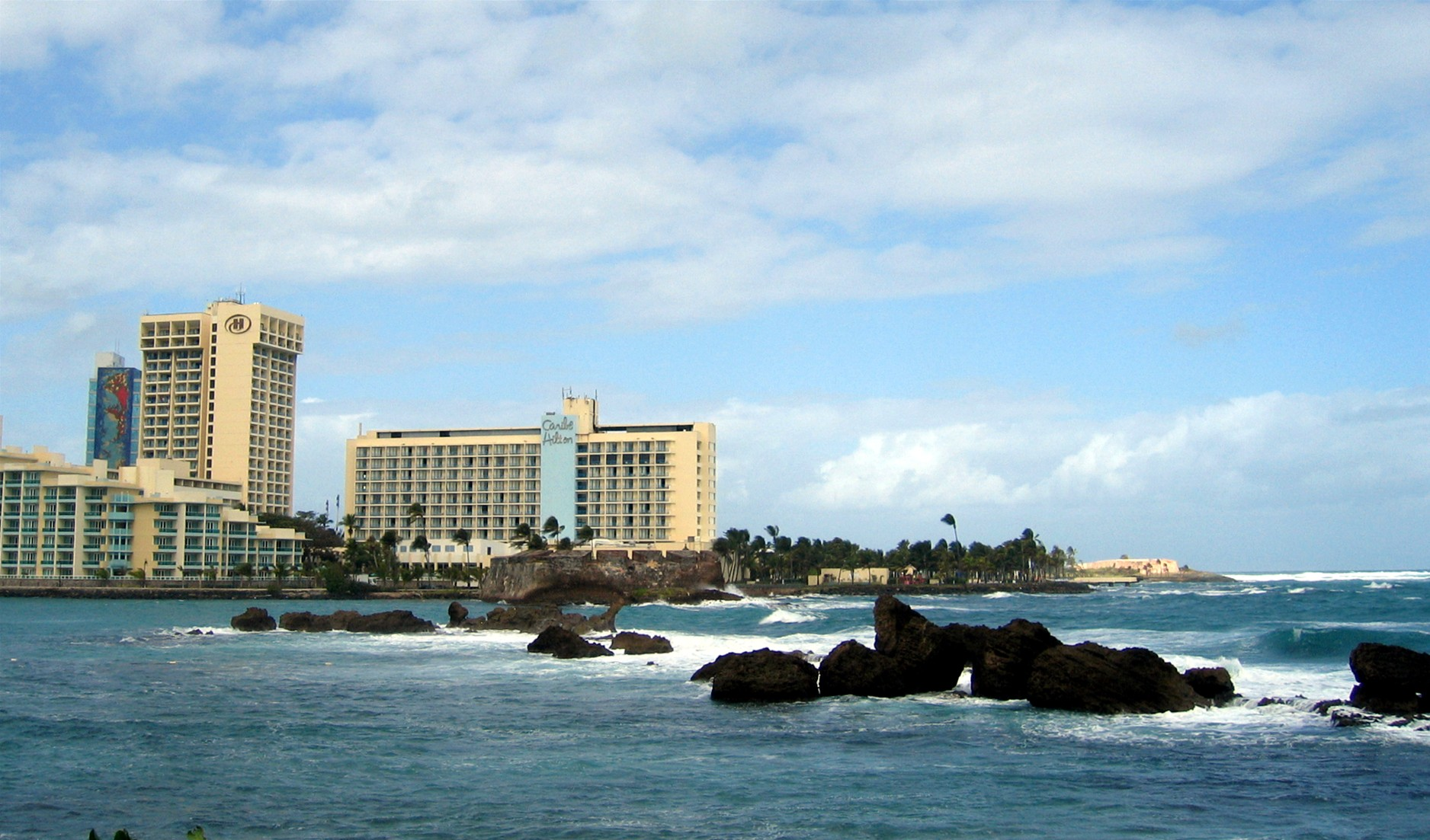 Caribe Hilton Hotel in San Juan, Puerto Rico as seen from Condado district.